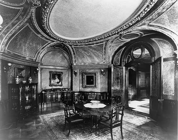 Dinning room (circa 1930), Marius Dufresne House, 4040 Sherbrooke Street East, Montreal, Quebec, Canada.